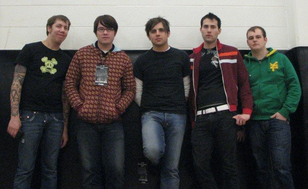 Photo of Hawthorne Heights taken on April 14, 2007 at the University of Scranton by a member of the University of Scranton Programming Board.